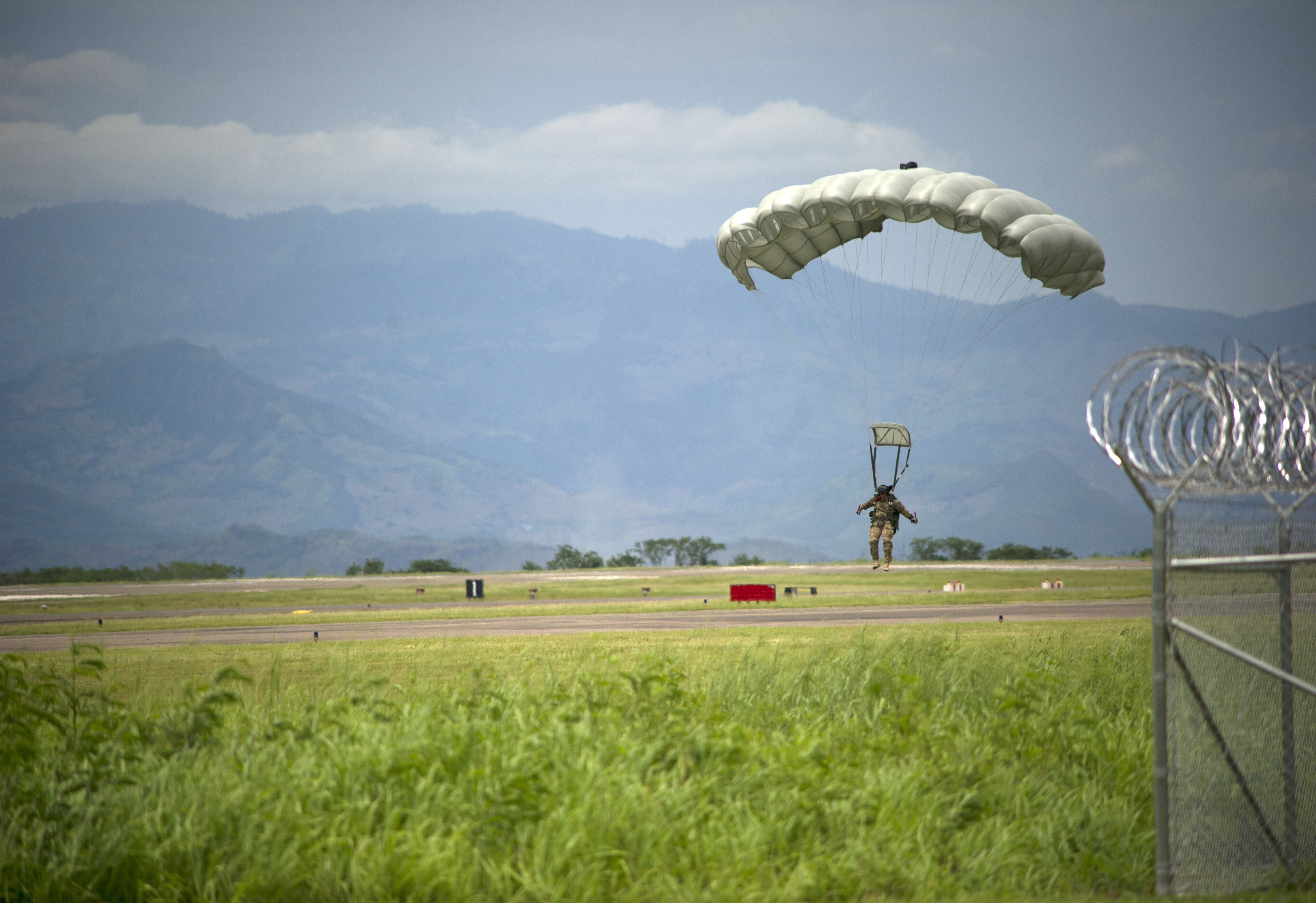 A Green Berets from 7th Special Forces Group (Airborne) prepares to land in the drop zone during a high altitude low opening parachute jump (HALO) with Honduran Soldiers from the 15th Fuerzas Especiales Battalion, Soto Cano Air Base, Honduras., Sept. 21, 2013. Green Berets from 7SFG (A) and Honduran special operations troops conducted a HALO operation. Sixteen jumpers exited the ramp of an AC130 at the altitude of 16,000 Ft.(U.S. Army photo by Spc. Steven K. Young/Released)